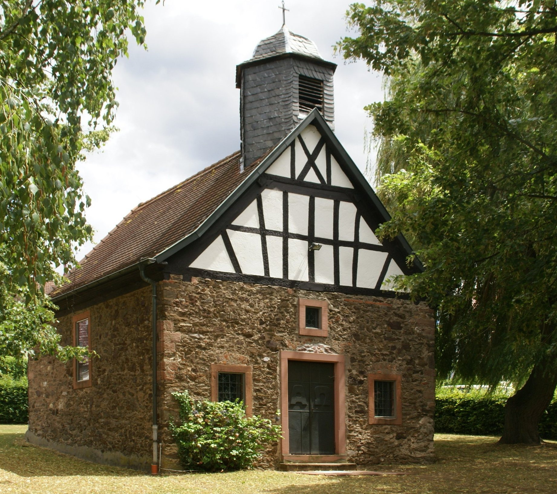 Chapel of Wilgefortis in Hörstein, Kapellenstraße